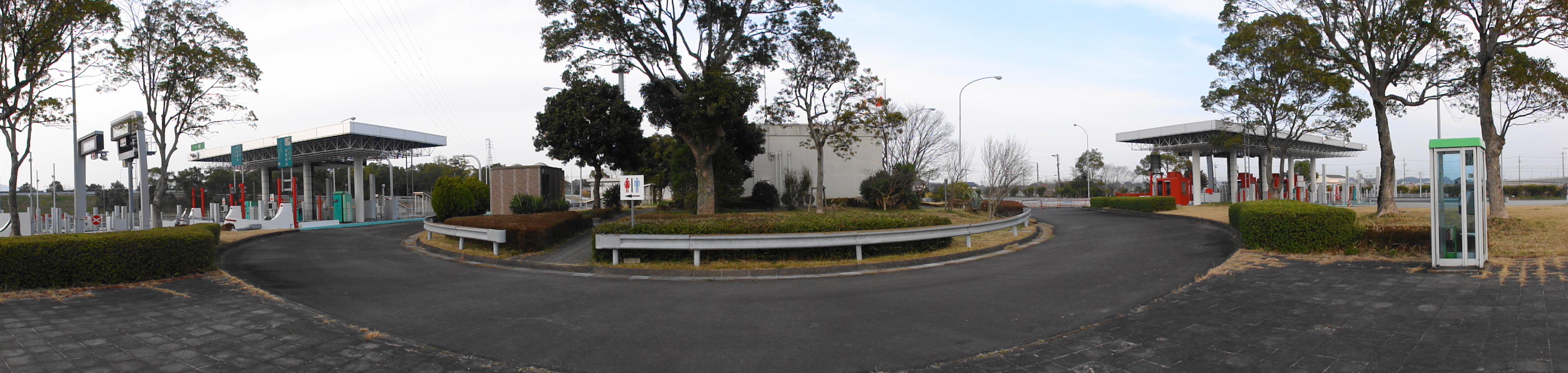 Tsu Inter Change, Mie prefecture, Japan